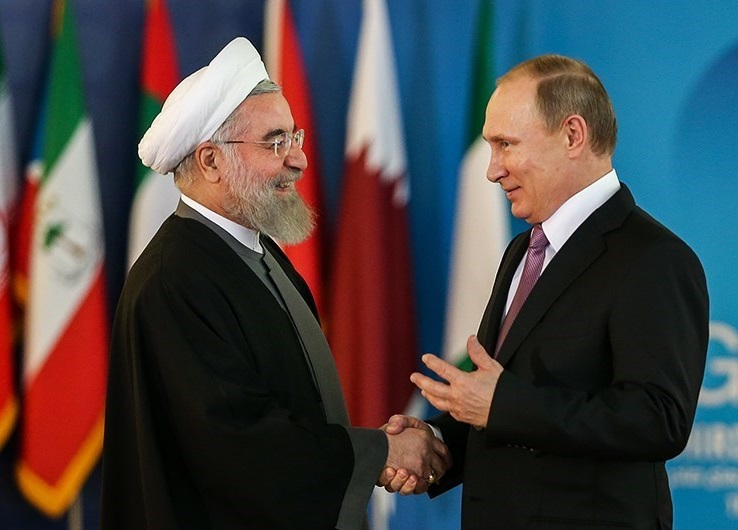 Third GECF summit, Tehran, Iran